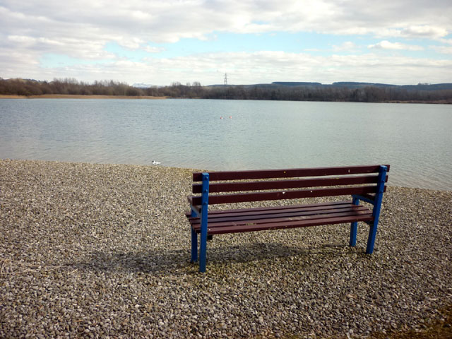 Bench, Pine Lake resort No-one enjoying the view over the water towards Ingleborough today.